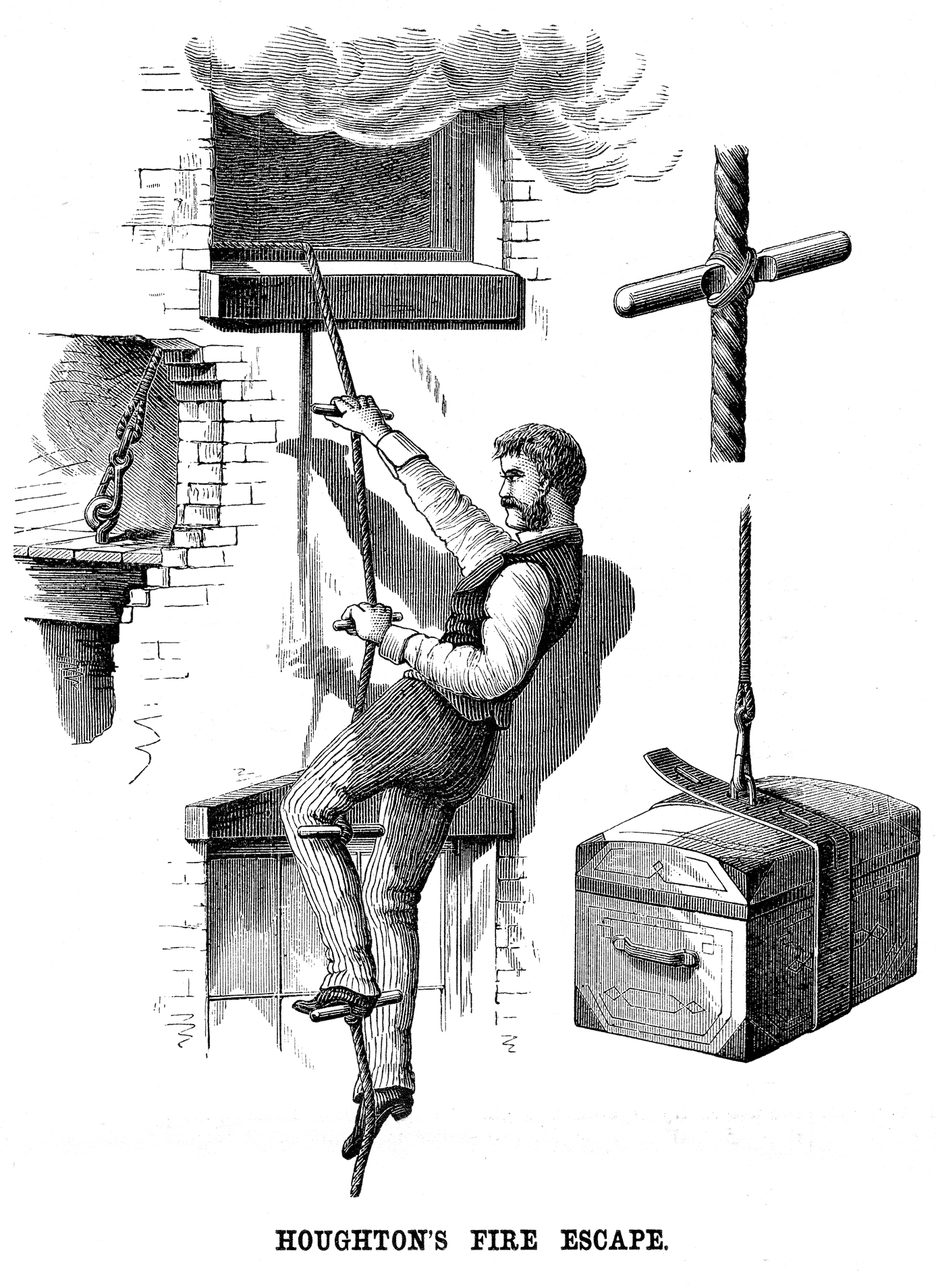 Houghton's portable fire escape (1877) R.H. Houghton, W. 42nd St., New York, NY